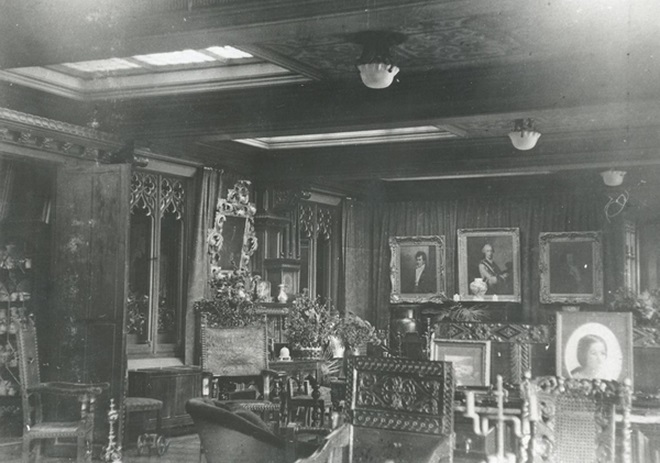 Abney Hall drawing room